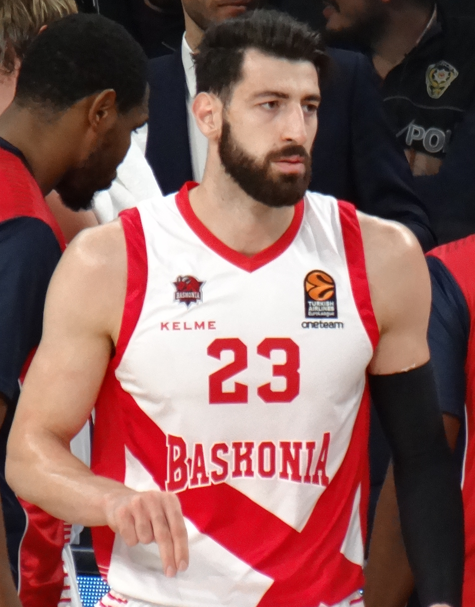 Tornike Shengelia 23 - Saski Baskonia 20171215